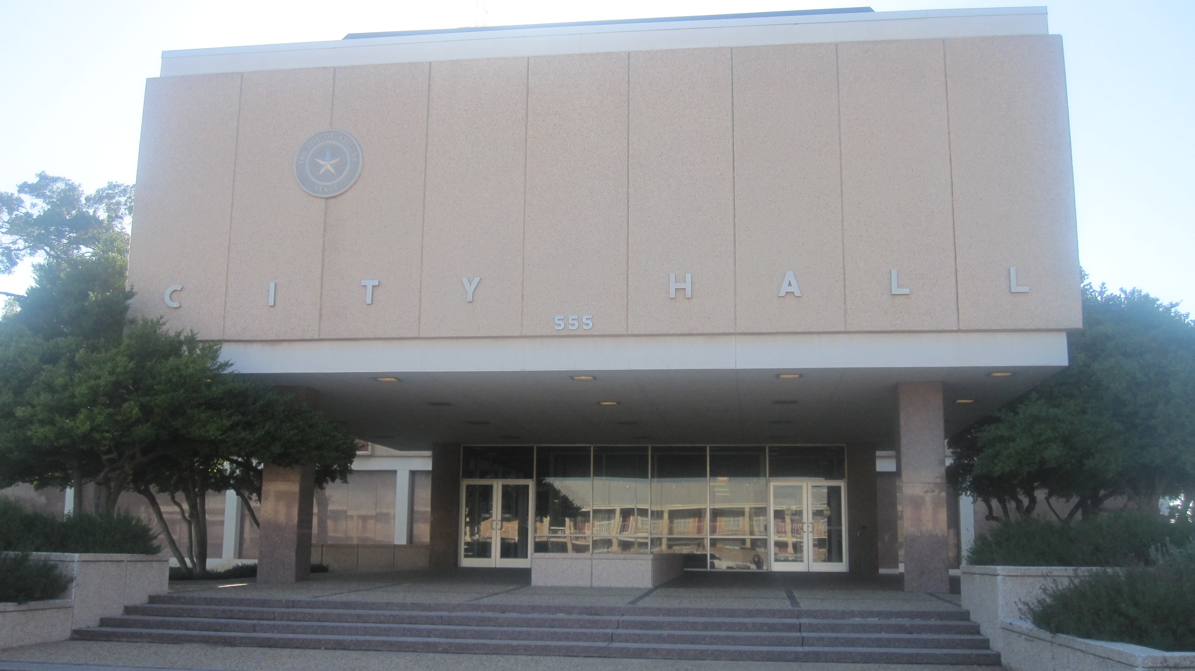 I took photo with Canon camera in Abilene, TX.